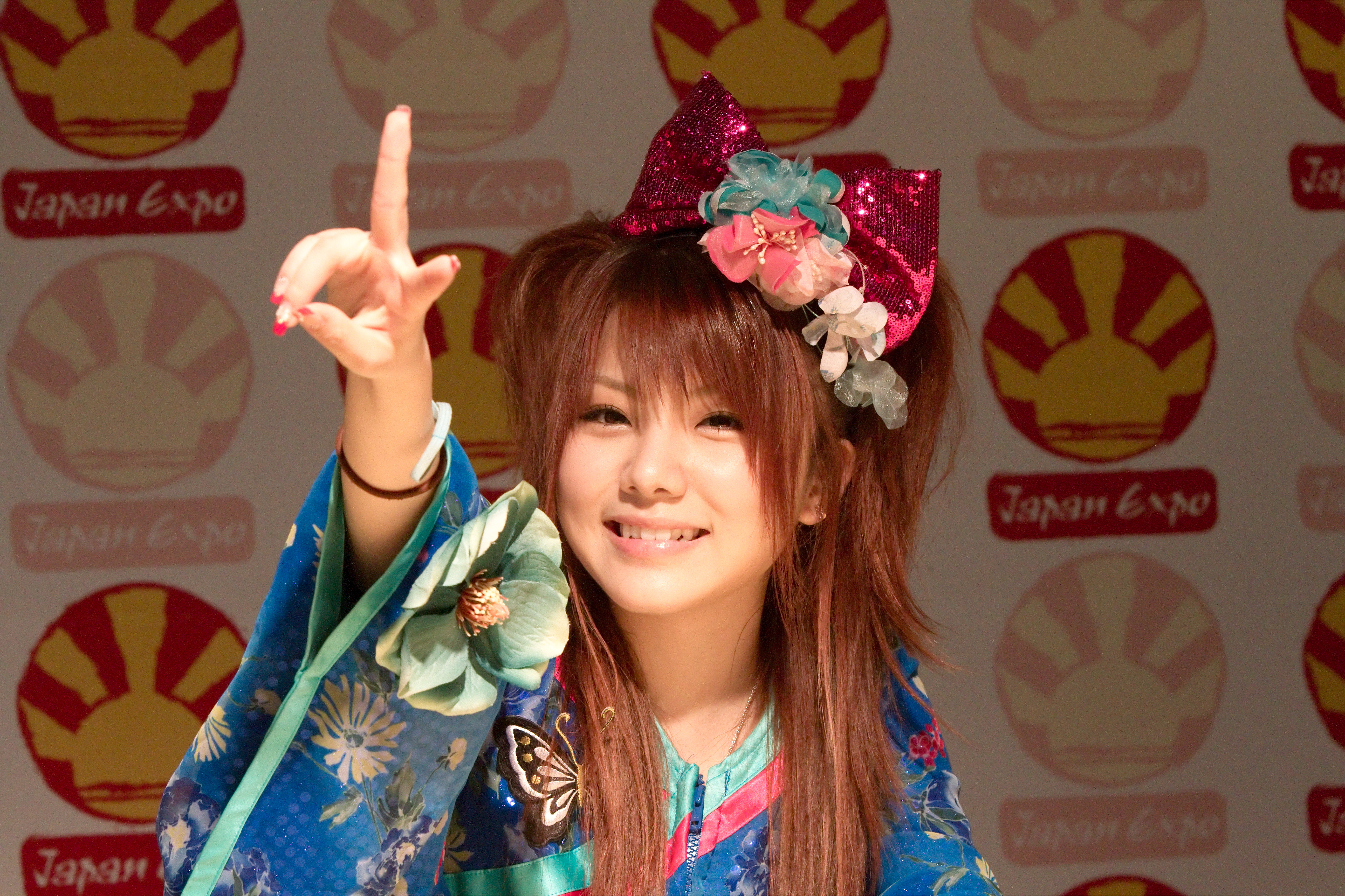 Reina Tanaka of Morning Musume during autograph session at Japan Expo, Sunday, July 03, 2010 (Paris, France).